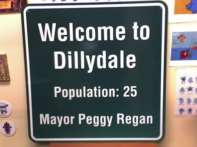 Dillydale sign